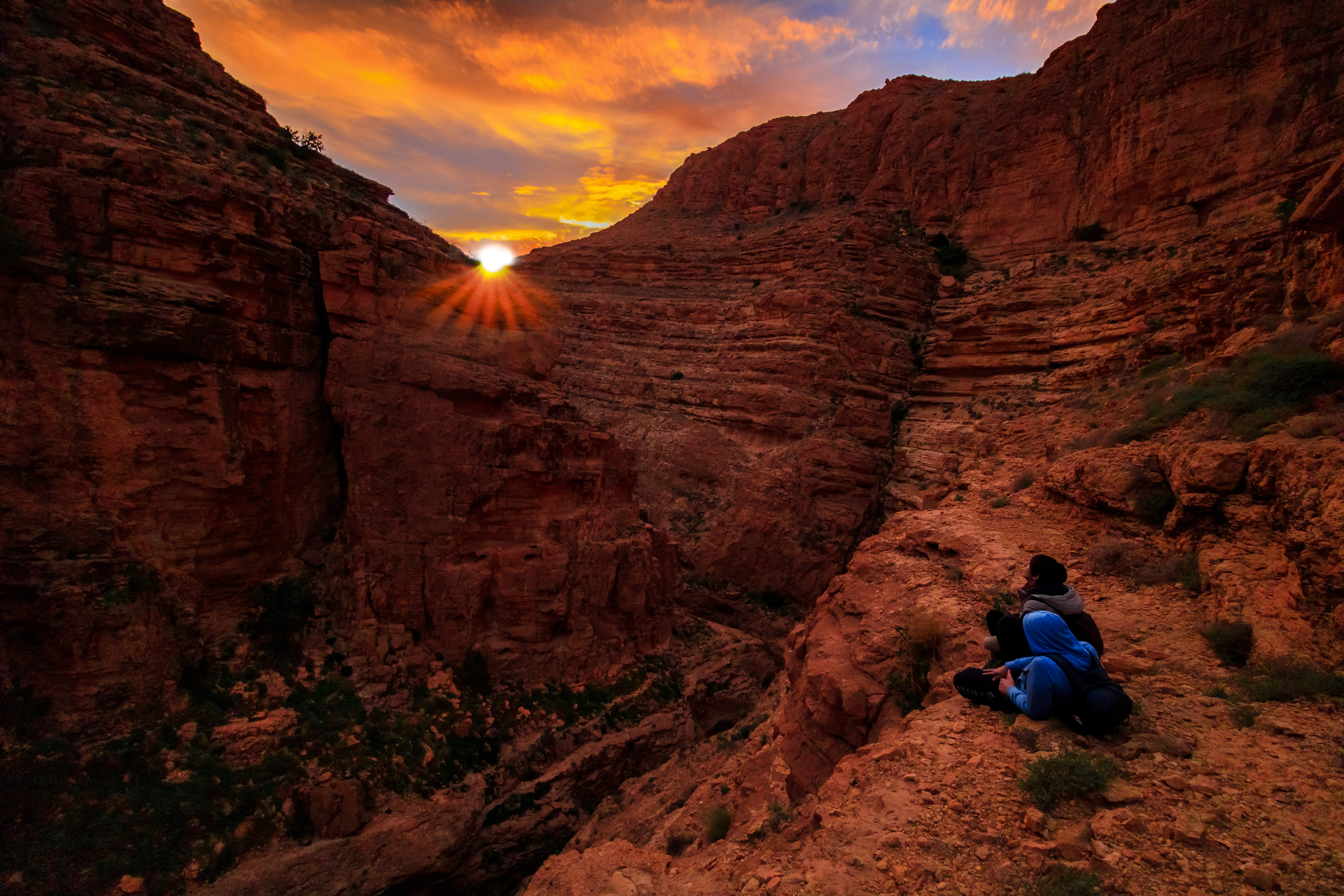 Oued Abiod Canyon, district of M'Chouneche, Aurès montain, Biskra Province, Algeria